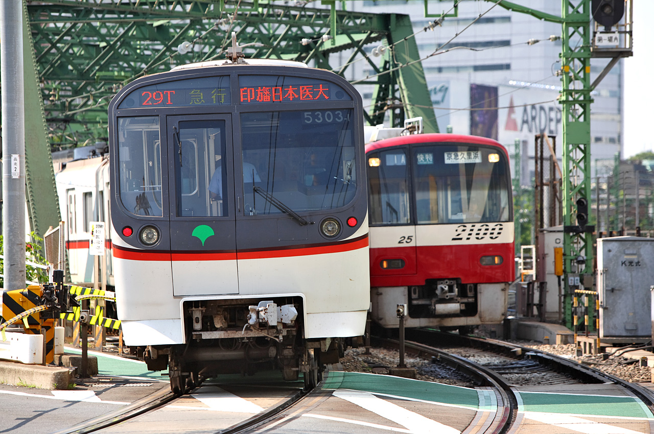 Tokyo Toei Subway 5300 series EMU